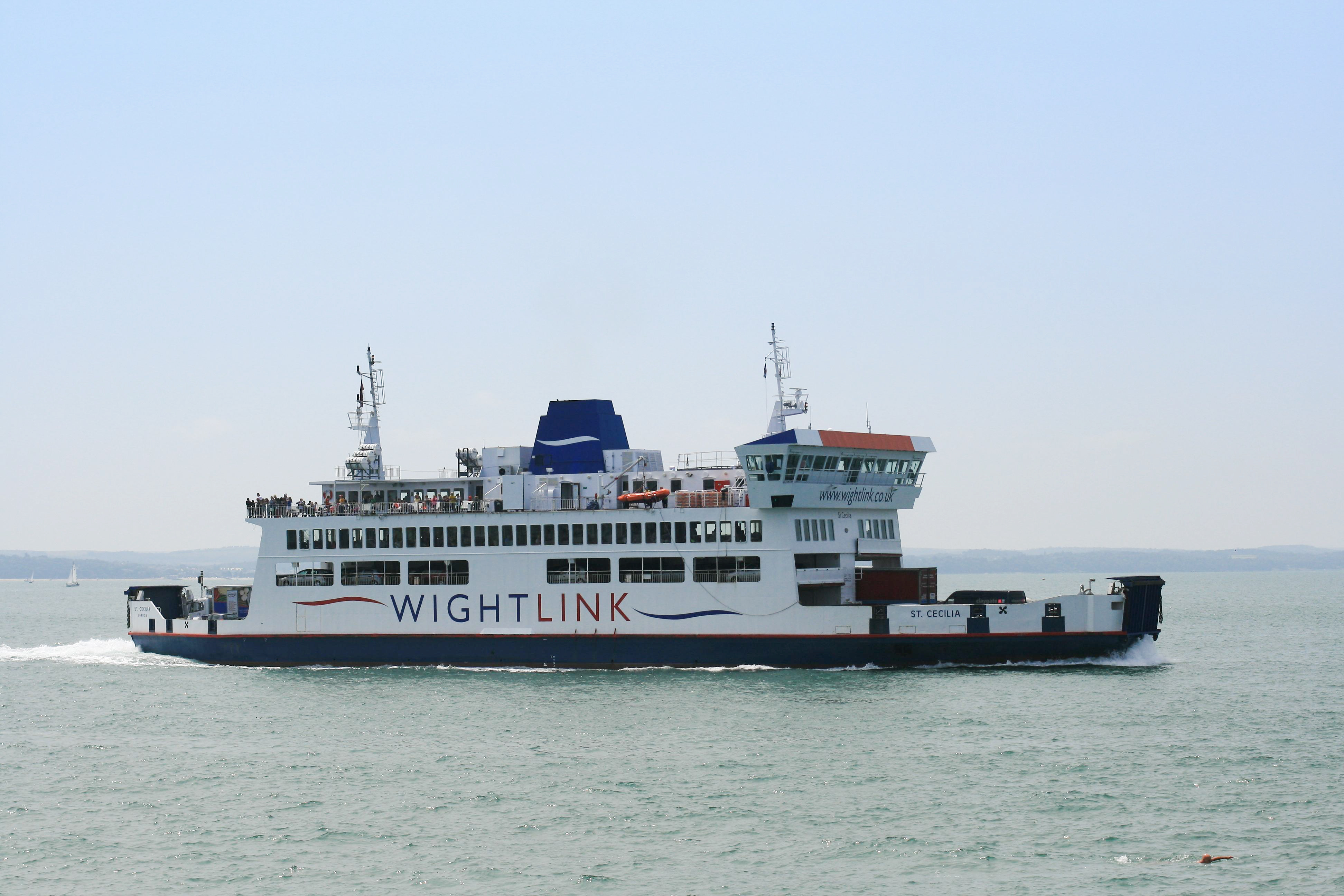 Isle of Wight Wightlink car ferry St Cecilia inbound to Portsmouth Harbour from Fishbourne on the Isle of Wight, UK. Wikipedia editors are reminded that the copyright remains with the photographer, and that the terms of the Creative Commons (CC), Attribution (BY), Share Alike (SA) CC-BY-SA-3.0 that allow editors to reuse this image apply to Wikipedia editors also, as they do to other re-users of this image. Breaches of the licence terms are not only unlawful, but are also antisocial, in that breaches discourage photographers from making their images freely available to everyone without payment. Wikipedia re-users are also reminded of the license terms that derivatives of this image should not imply that the adaptation is endorsed or approved by the author or copyright holder. Neither should derivatives be presented as the creation of the author or copyright holder, while clearly stating that the adaptation is a derivative of the original. Attribution online should be in this format Brian Burnell. On the printed page, a simpler form is acceptable - example: "Image: Brian Burnell".